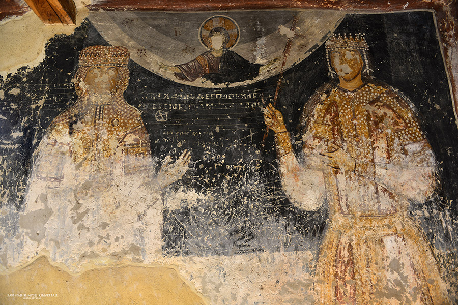 Fresco, couple